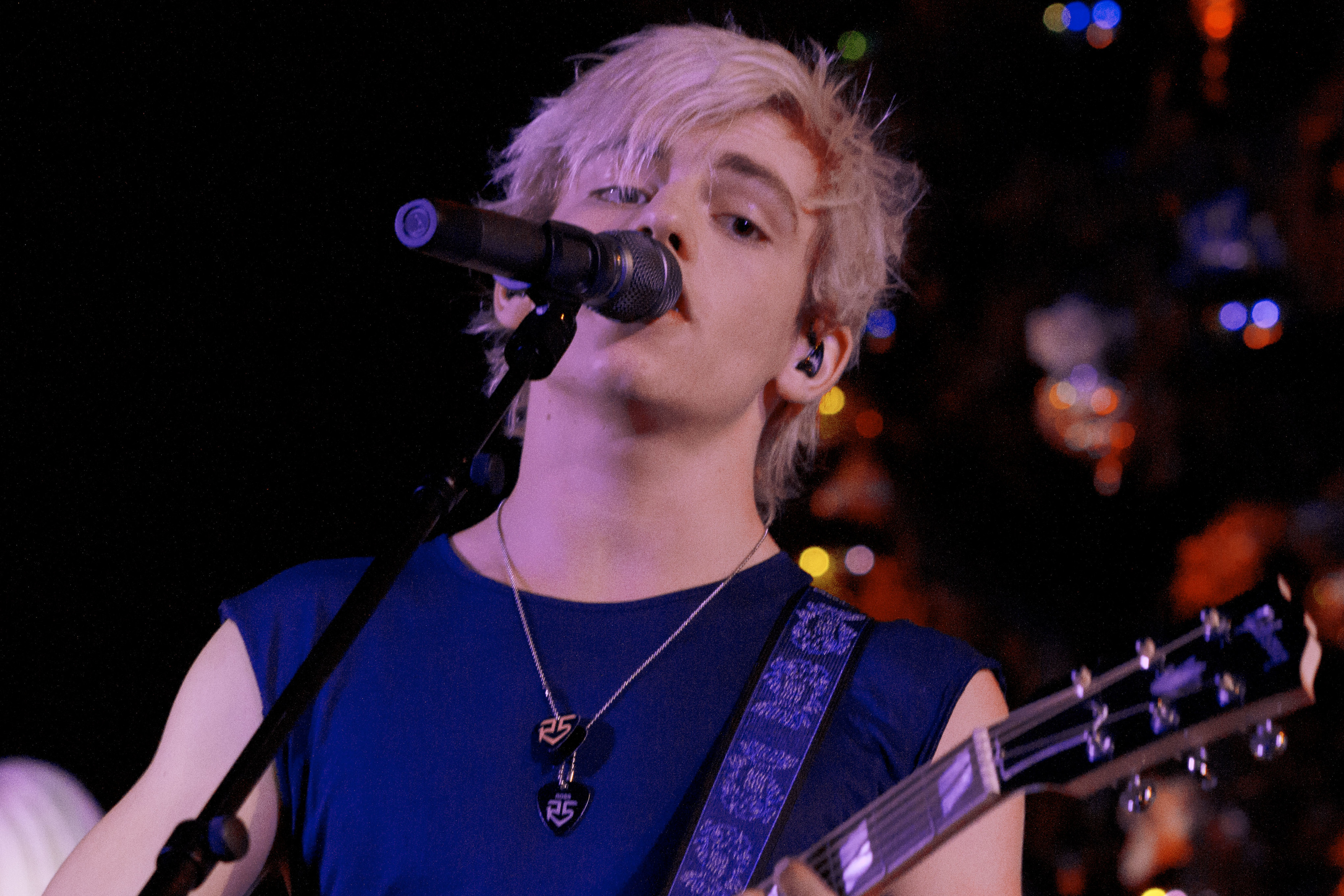 The Citadel's 12th Annual Christmas Tree Lighting Los Angeles, CA November 9th, 2013